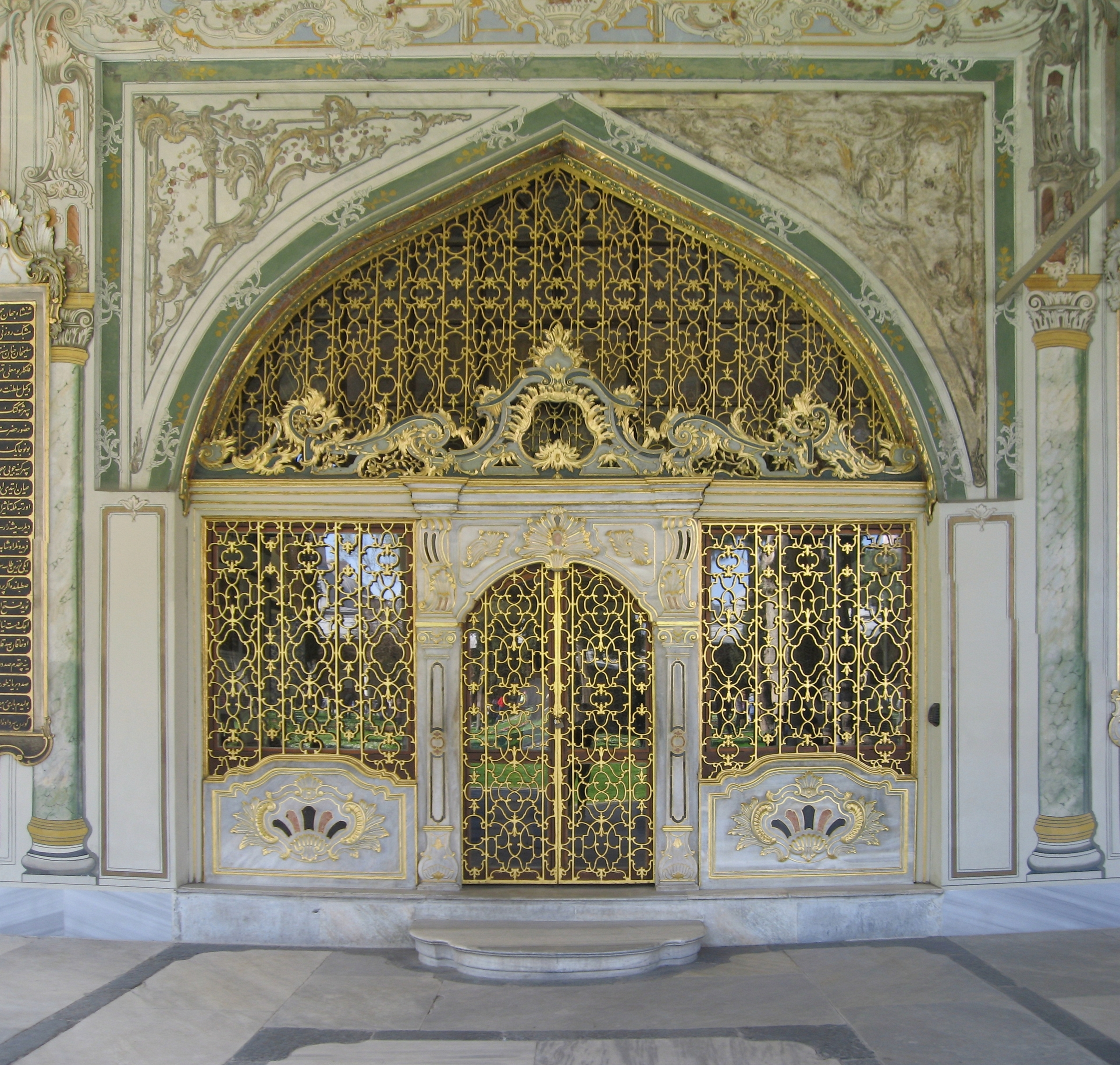 Door to the Imperial Council (Divan) at Topkapi Palace in Istanbul.